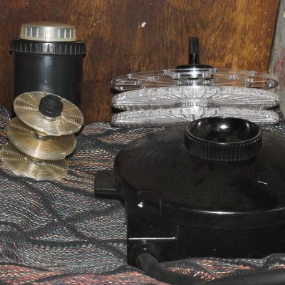 cotainers for developing film.